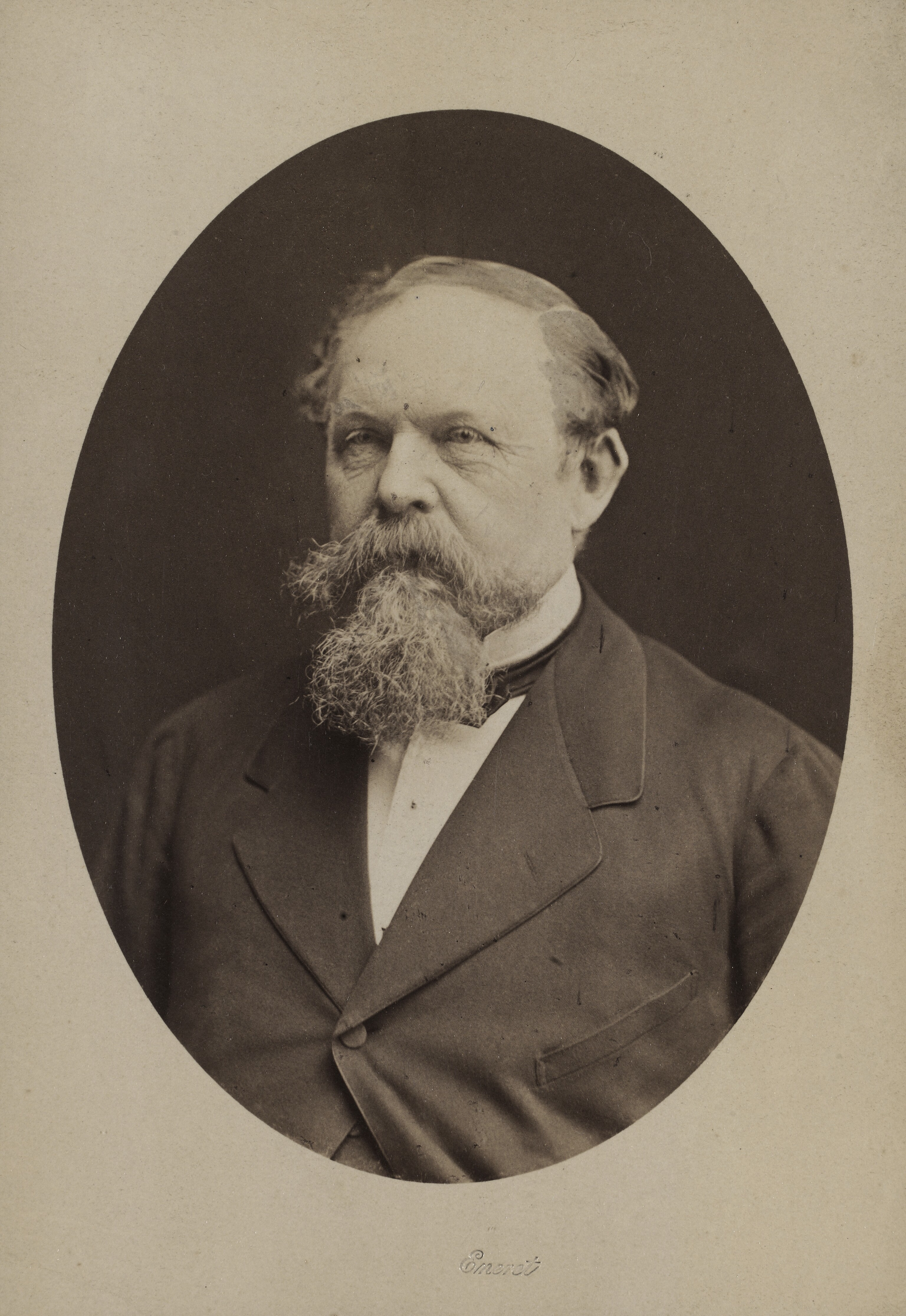 Erik Vilhelm Robert Skeel (1818-1884), Danish Interior Minister, MP